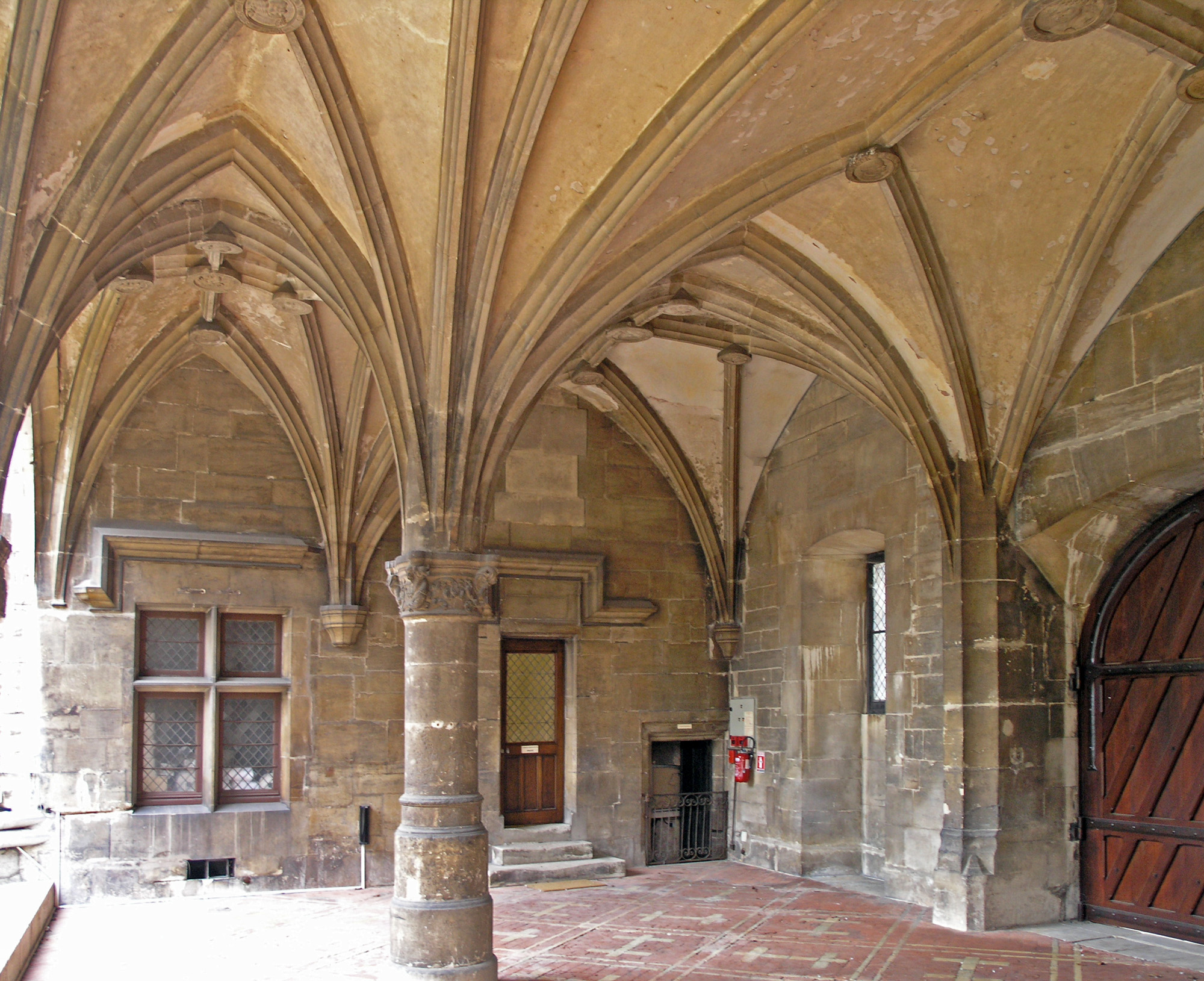 Inside of the main gate of the Palais ducal (Musée lorrain) in Nancy, France.